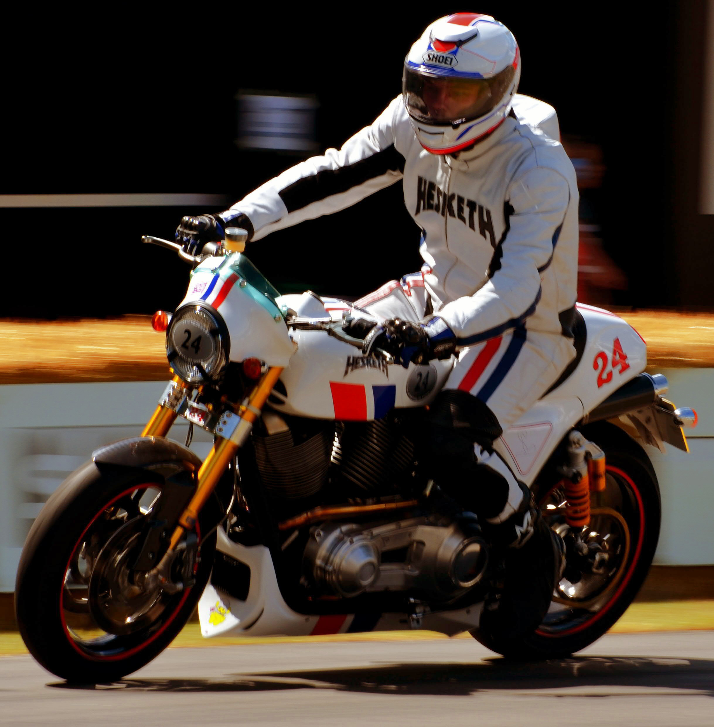 The pre-production Hesketh 24 demonstration at Goodwood Festival of Speed